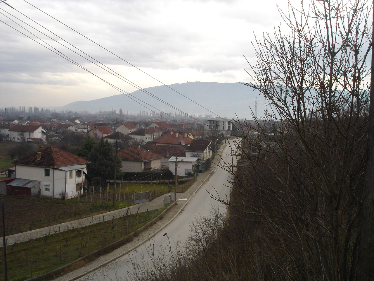 village of Volkovo, near Skopje, Macedonia